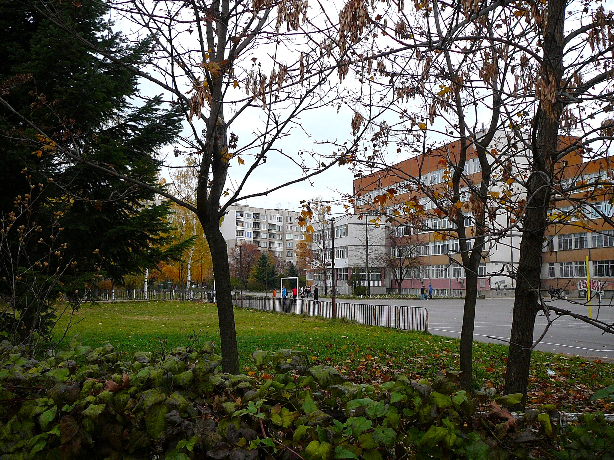 81-th high school in Sofia, Bulgaria